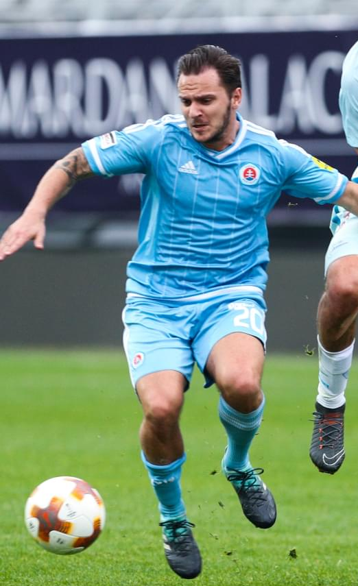 04.02.18. Турция, Анталья, стадион «Мардан». Вторые зимние «Газпром» — тренировочные сборы: товарищеский матч «Зенит» — «Слован».